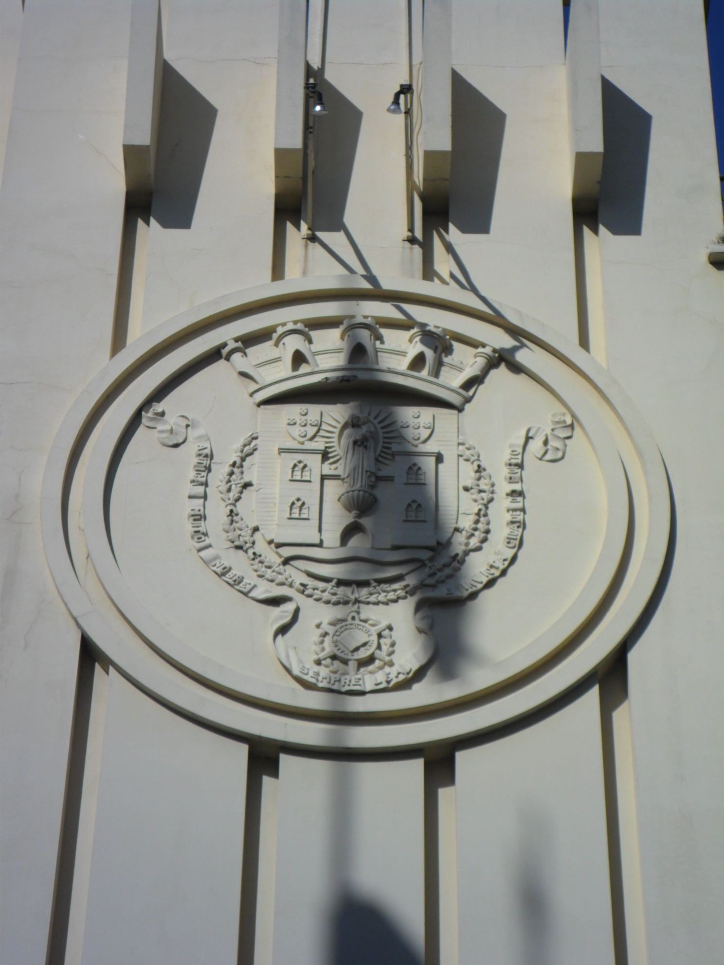 This file was uploaded for Wiki Loves Monuments in Portugal with the unique identifier 97005423.